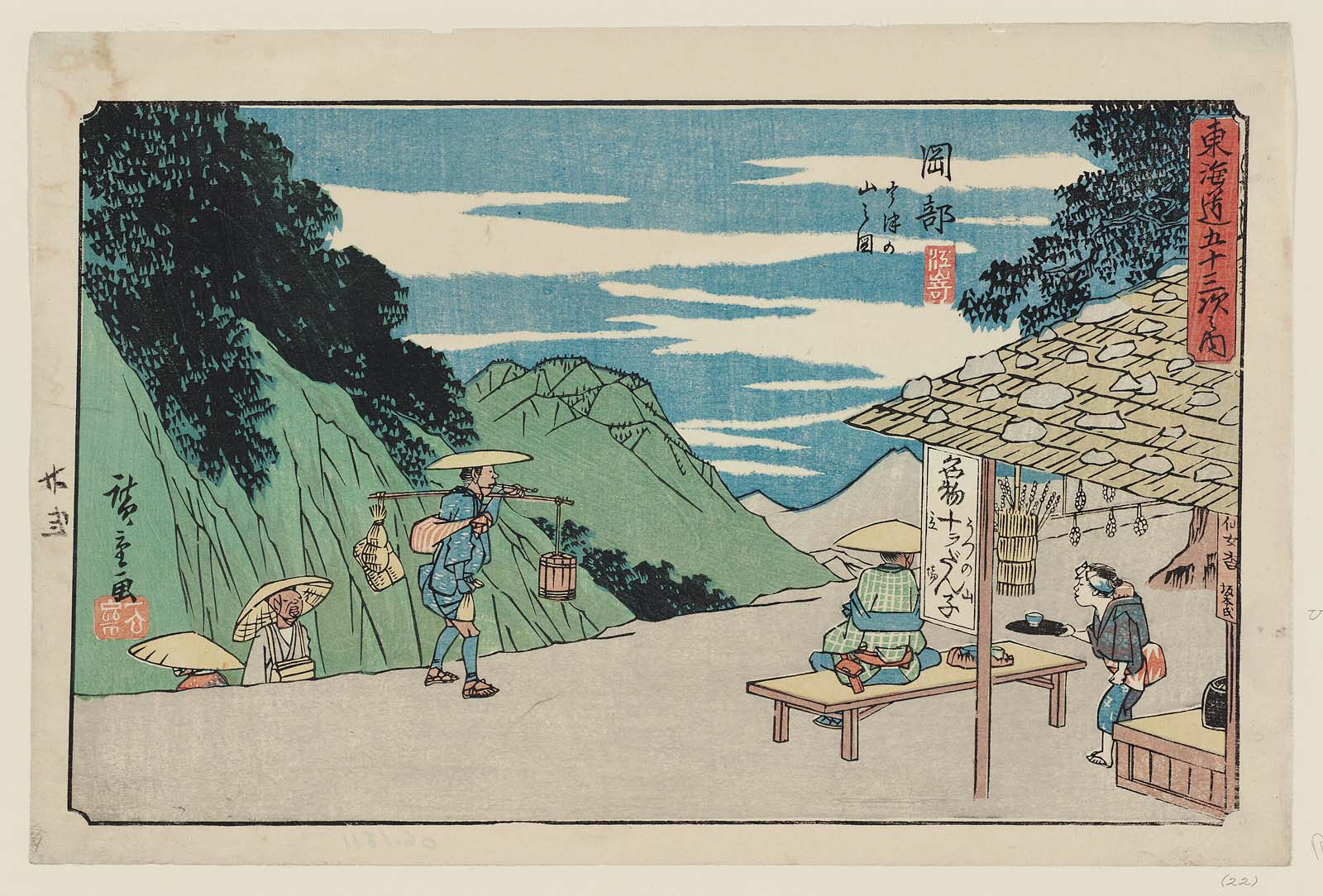 Okabe: View of Mt. Utsu (Okabe, Utsu-no-yama no zu), from the series The Fifty-three Stations of the Tôkaidô Road (Tôkaidô gojûsan tsugi no uchi), also known as the Gyôsho Tôkaidô